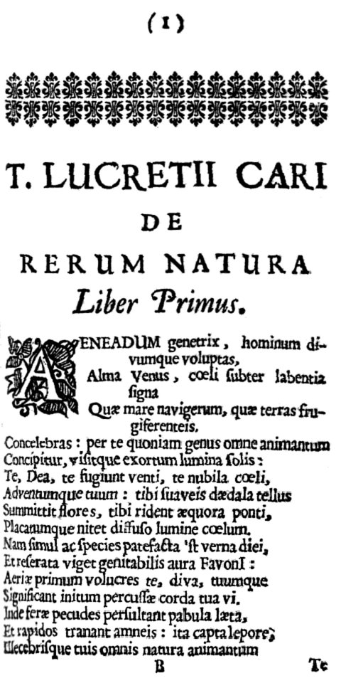 Book 1, page 1, of De Rerum Natura by Titus Lucretius Carus, from the 1675 edition by Tanaquil Faber